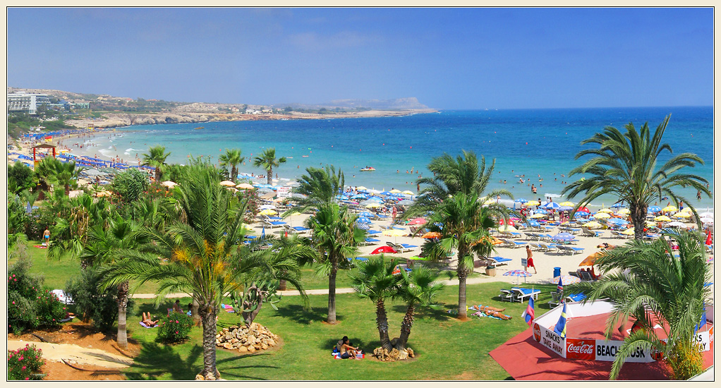 View of Agia Napa beach located in vicinity of Nelia Beach Hotel